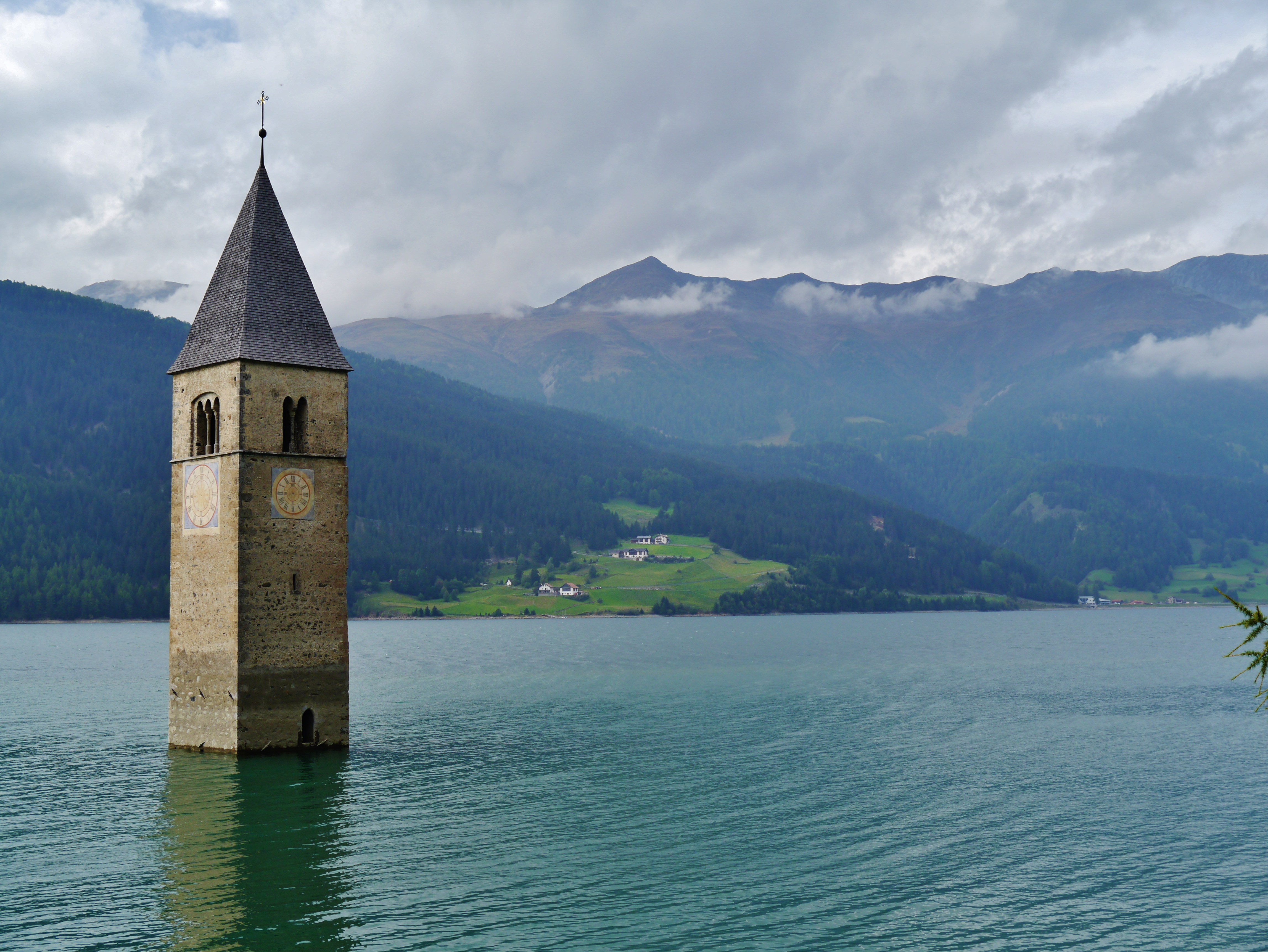 Church Tower of Old Graun inside Reschen Lake at Reschenpass, South Tyrol/Trentino-Alto Adige, Italy